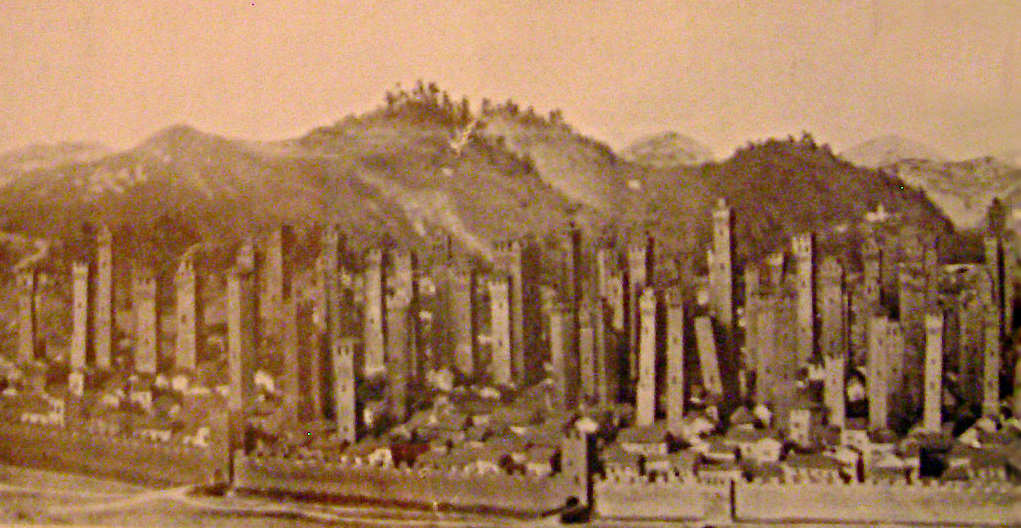 Bologna 11th Century panorama